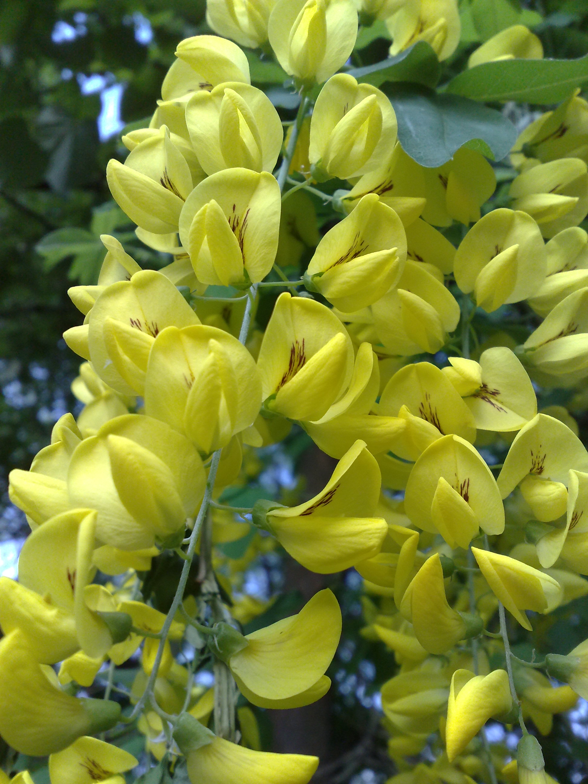 Blossom of yellow Acacia